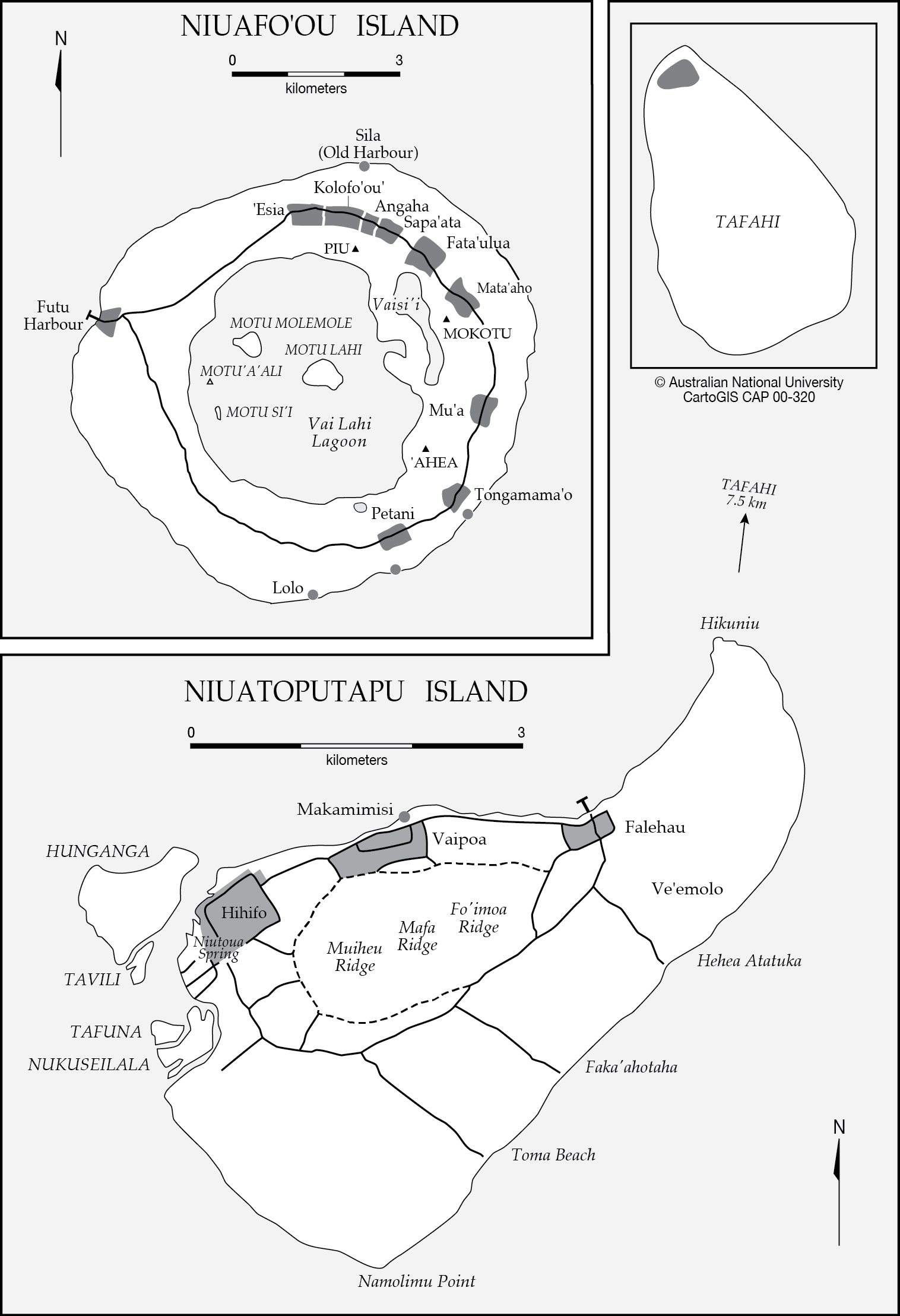 Map of Niua Islands, Northern part of Tonga, Pacific Ocean